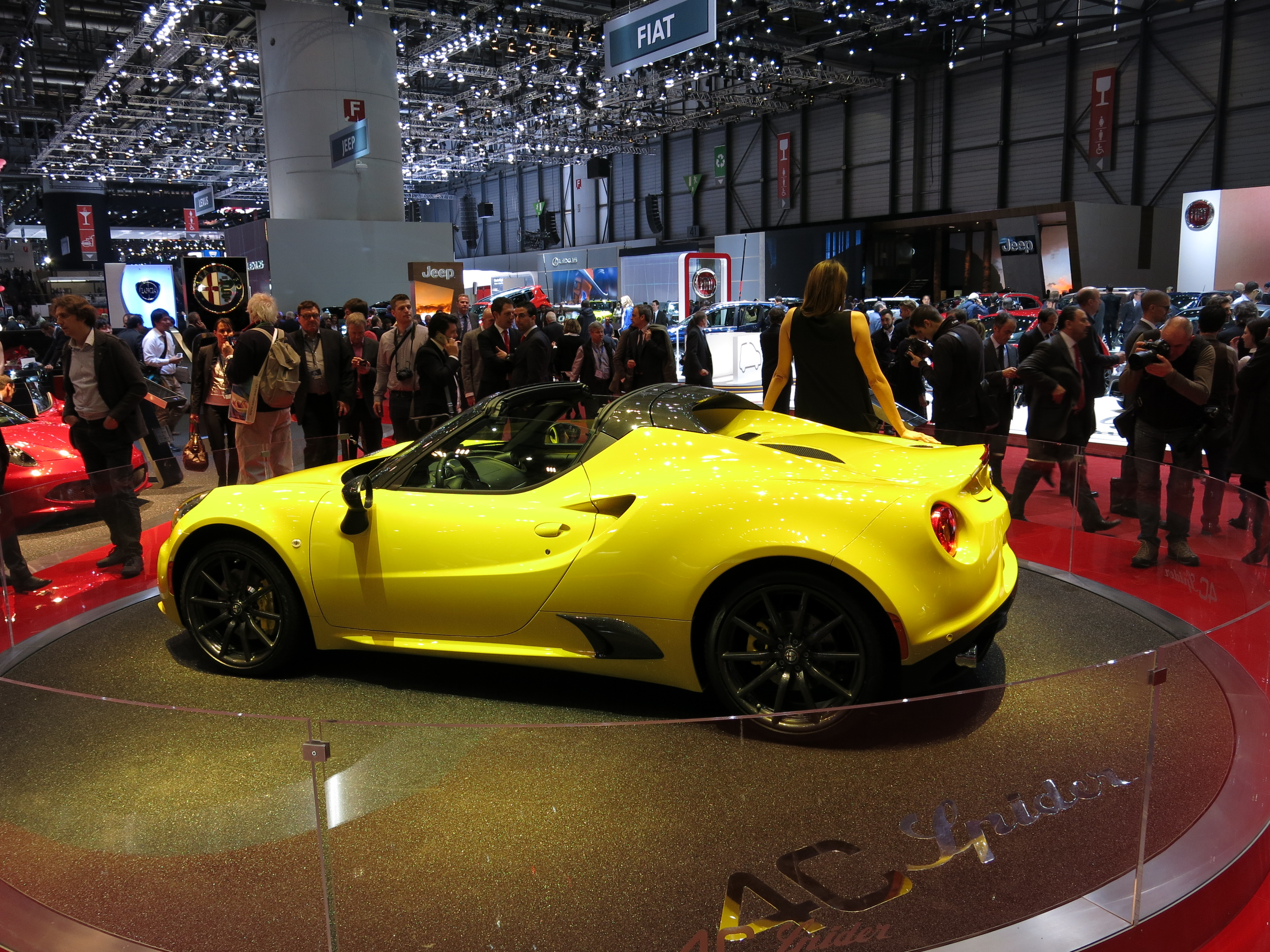 Geneva Motor Show 2015 (photo taken on the first press day)